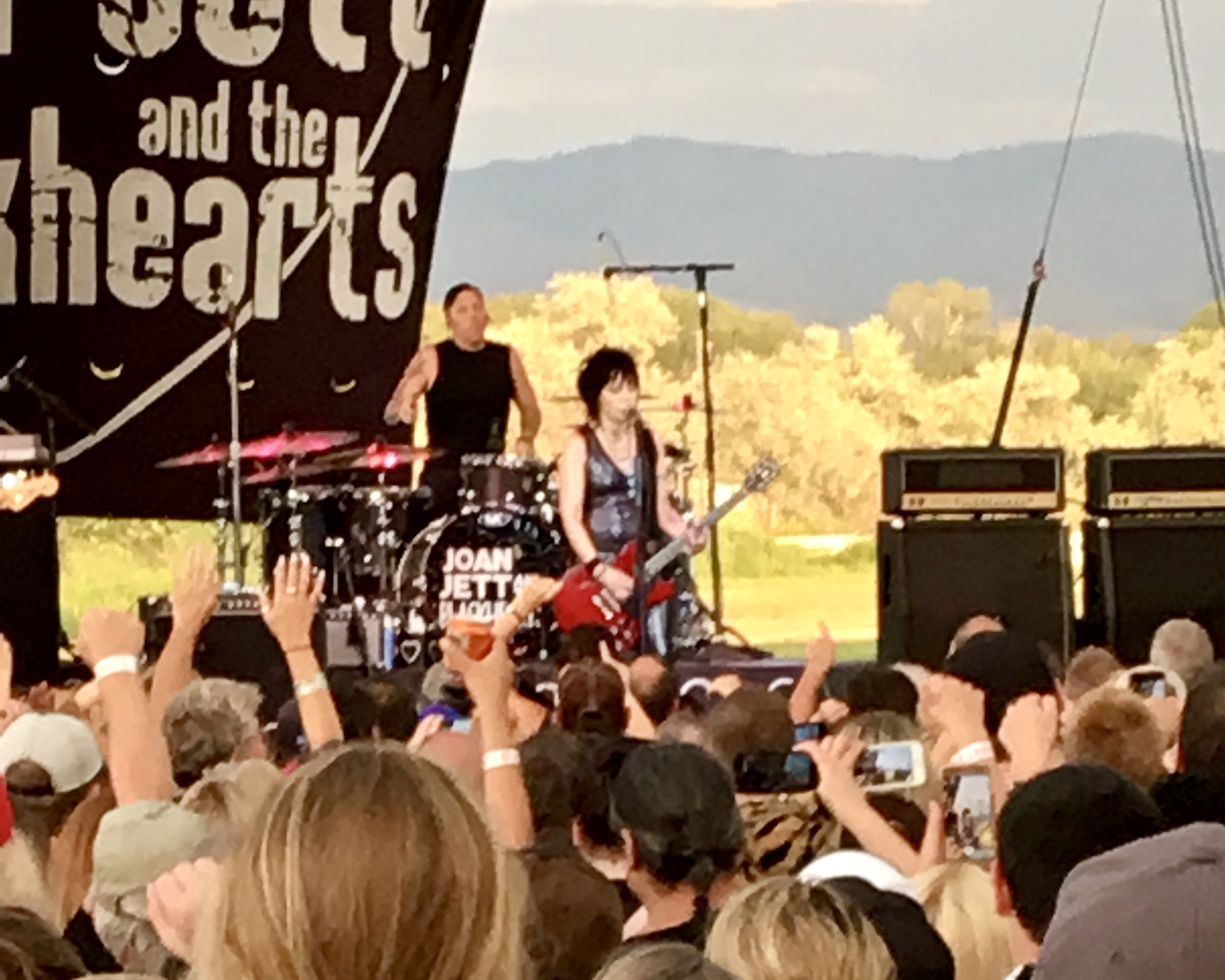 A Joan Jett concert at the Western Idaho Fairgrounds of Garden City in August 2017.